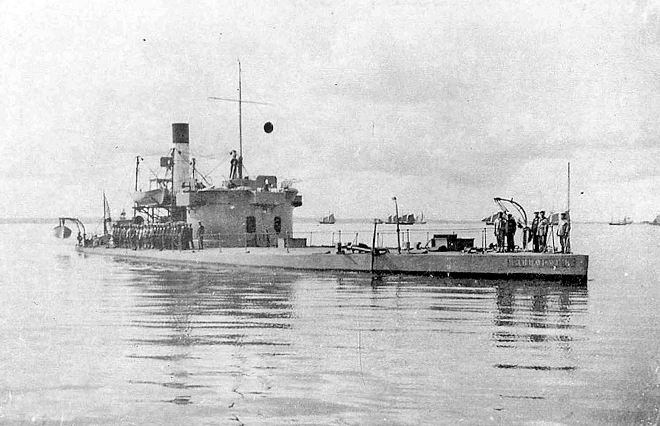 Imperial Russian turret armour-clad boat Edinorog.